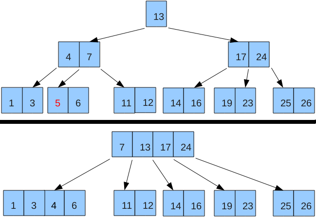 Delete key from Btree